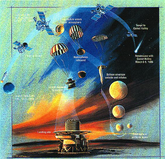 Vega mission. NSSDC NASA PD image